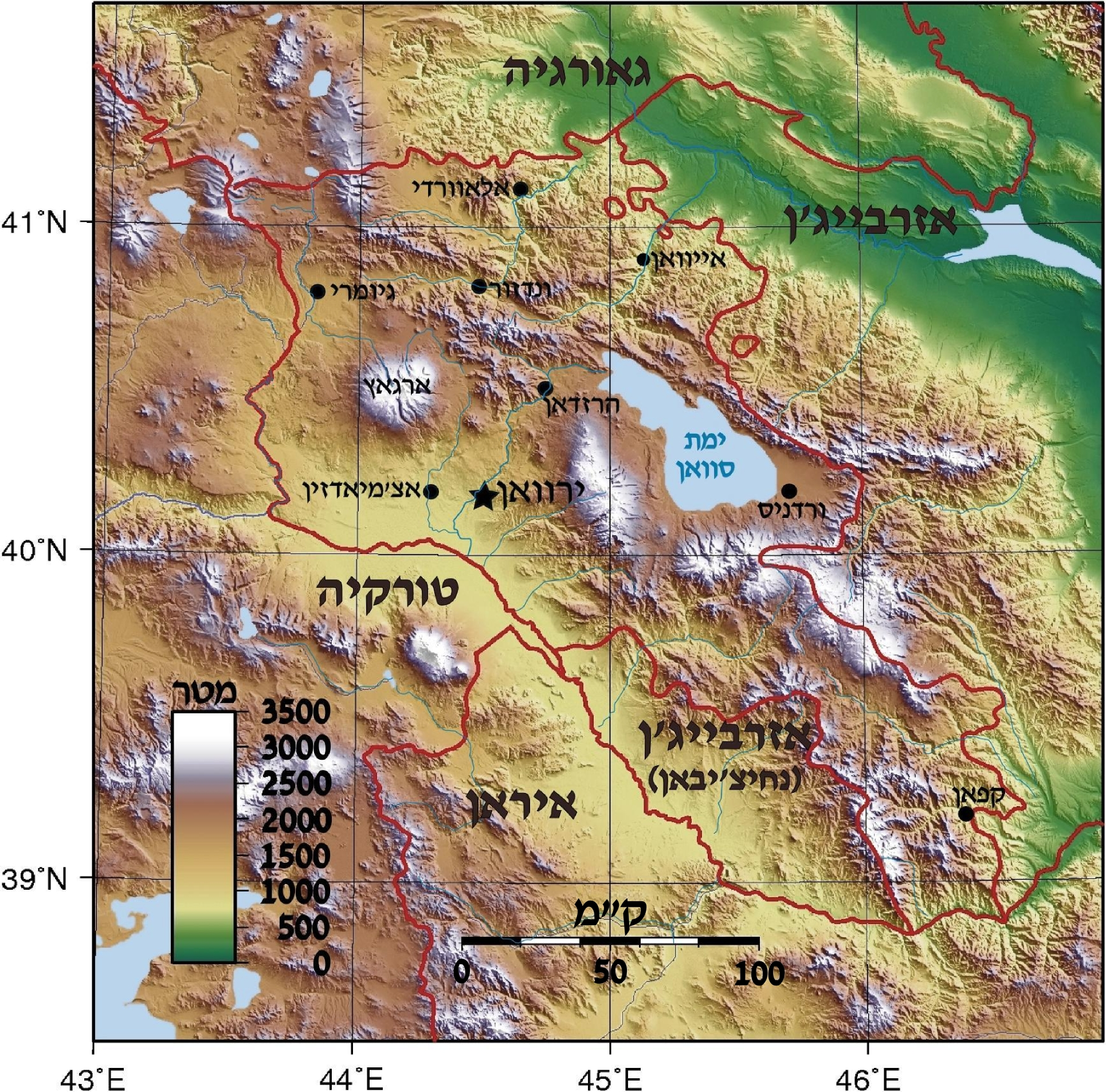 Location map of Armenia. Equirectangular projection, N/S stretching 130 %. Geographic limits of the map: * N: 41.4° N * S: 38.8° N * W: 43.4° E * E: 46.7° E